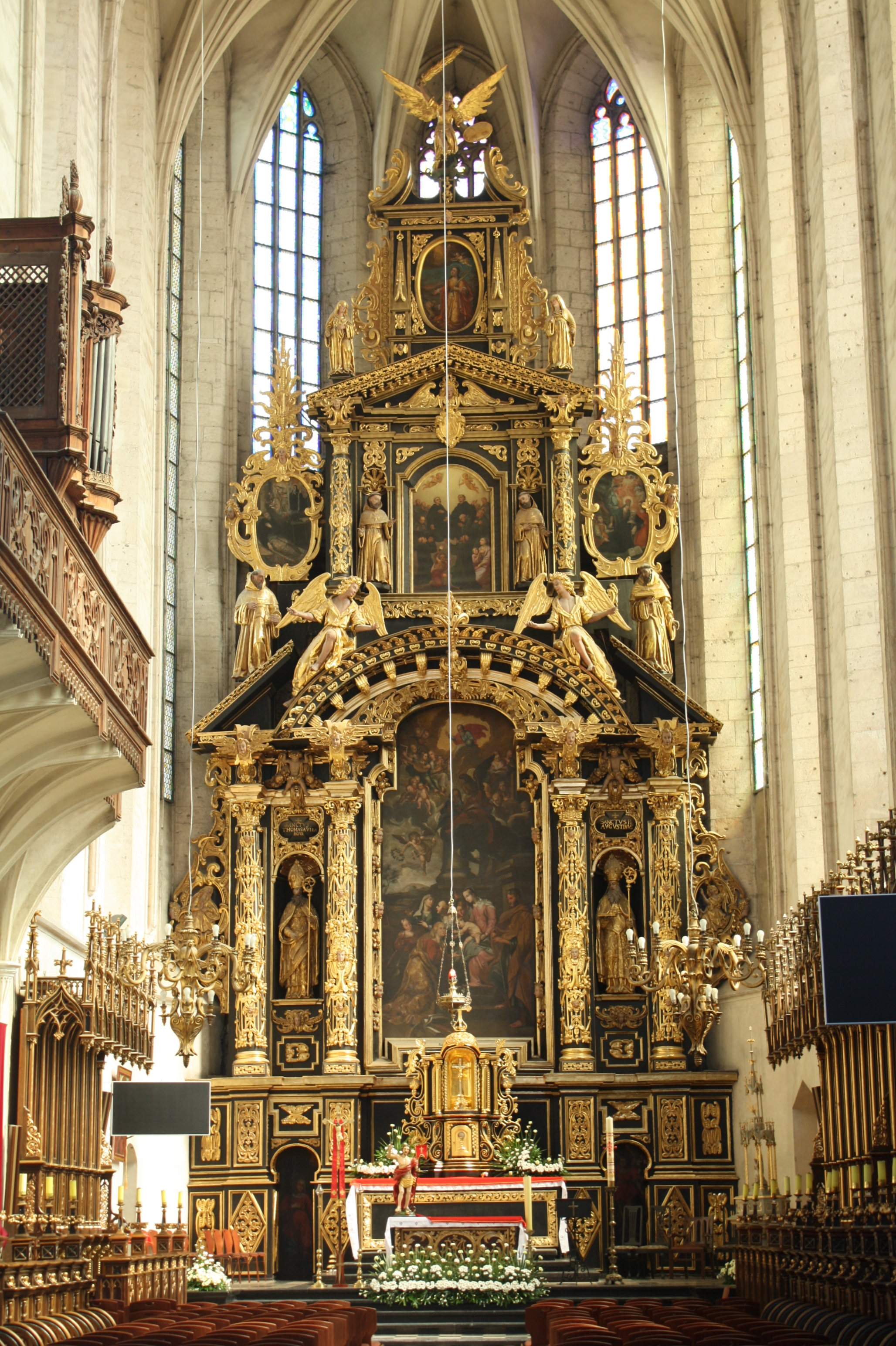 Cracow Kazimierz, St. Catherine Church